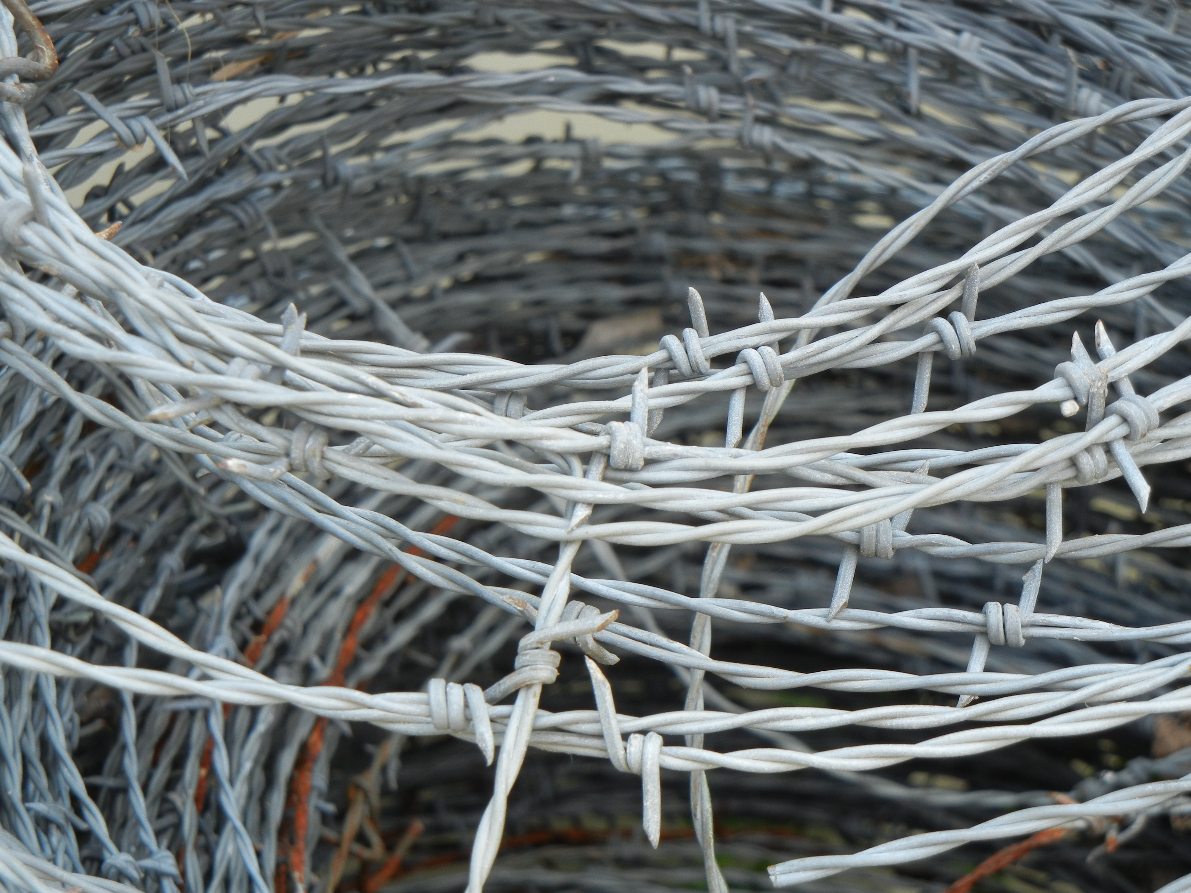 Roll of barbed wire on a farm